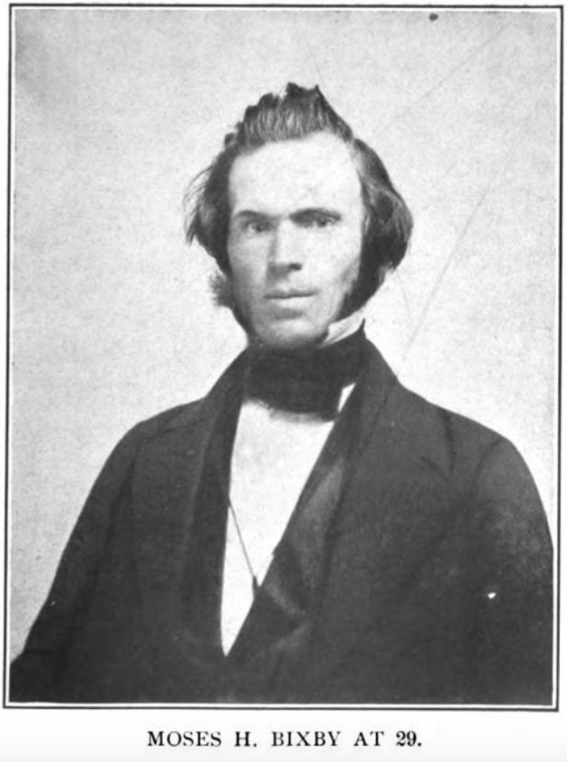 Moses Homan Bixby pastor from Rhode Island and New Hampshire and missionary to Burma